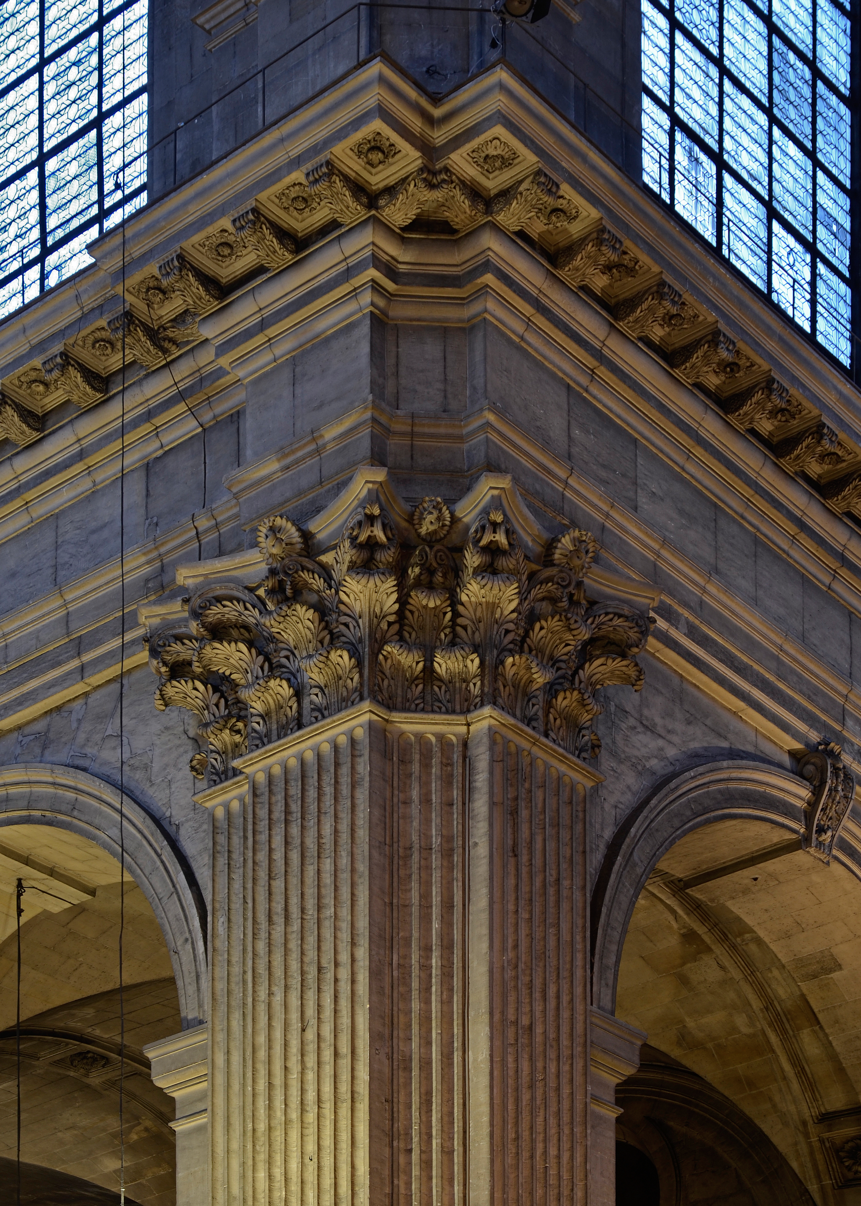 Capital and pillar of the nave - Saint-Sulpice church - Paris, France